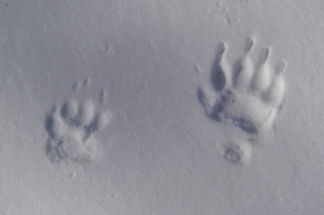 Meles meles tracks on snow, from Commanster, Belgian High Ardennes (50°15'20``N,5°59'58``E)